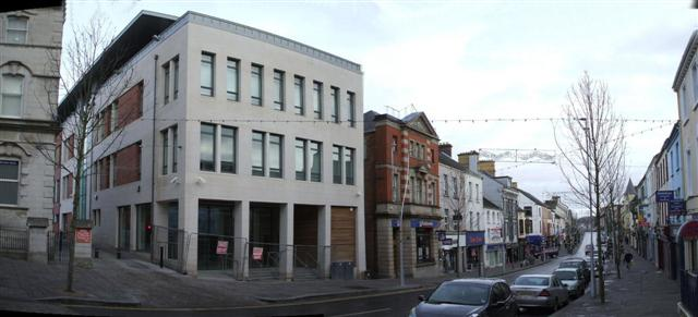 New DPP Offices, High Street, Omagh. Officially opened on Friday, 14th December, 2007 by the Attorney General, the Rt Hon Baroness Scotland of Astal QC. Parts of the building have not been completed as the contractor has since went broke.